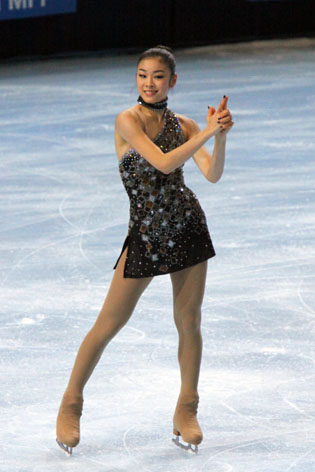 Kim at the 2009 TEB.